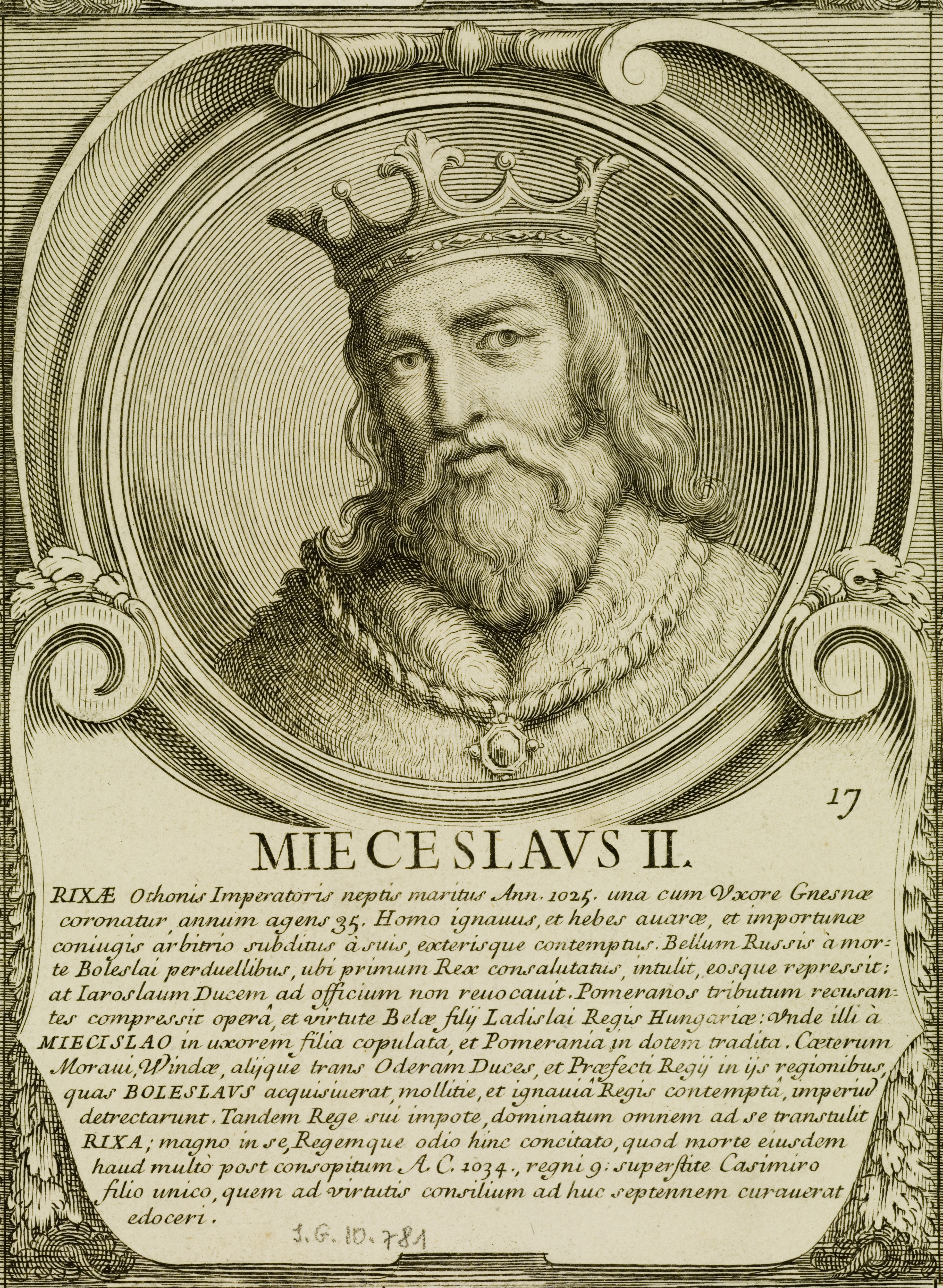 King Mieszko II of Poland